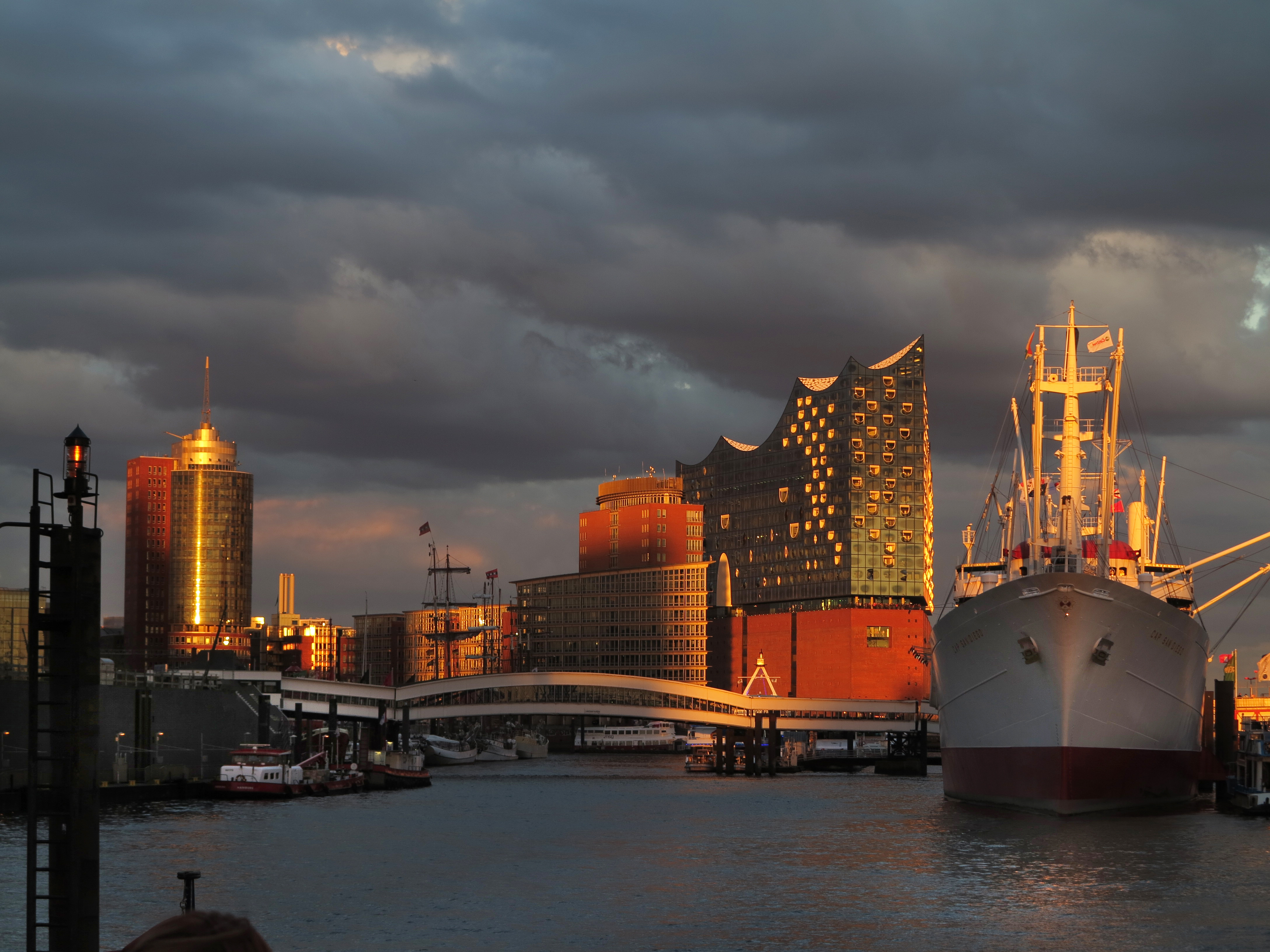 Elbphilharmonie at evening